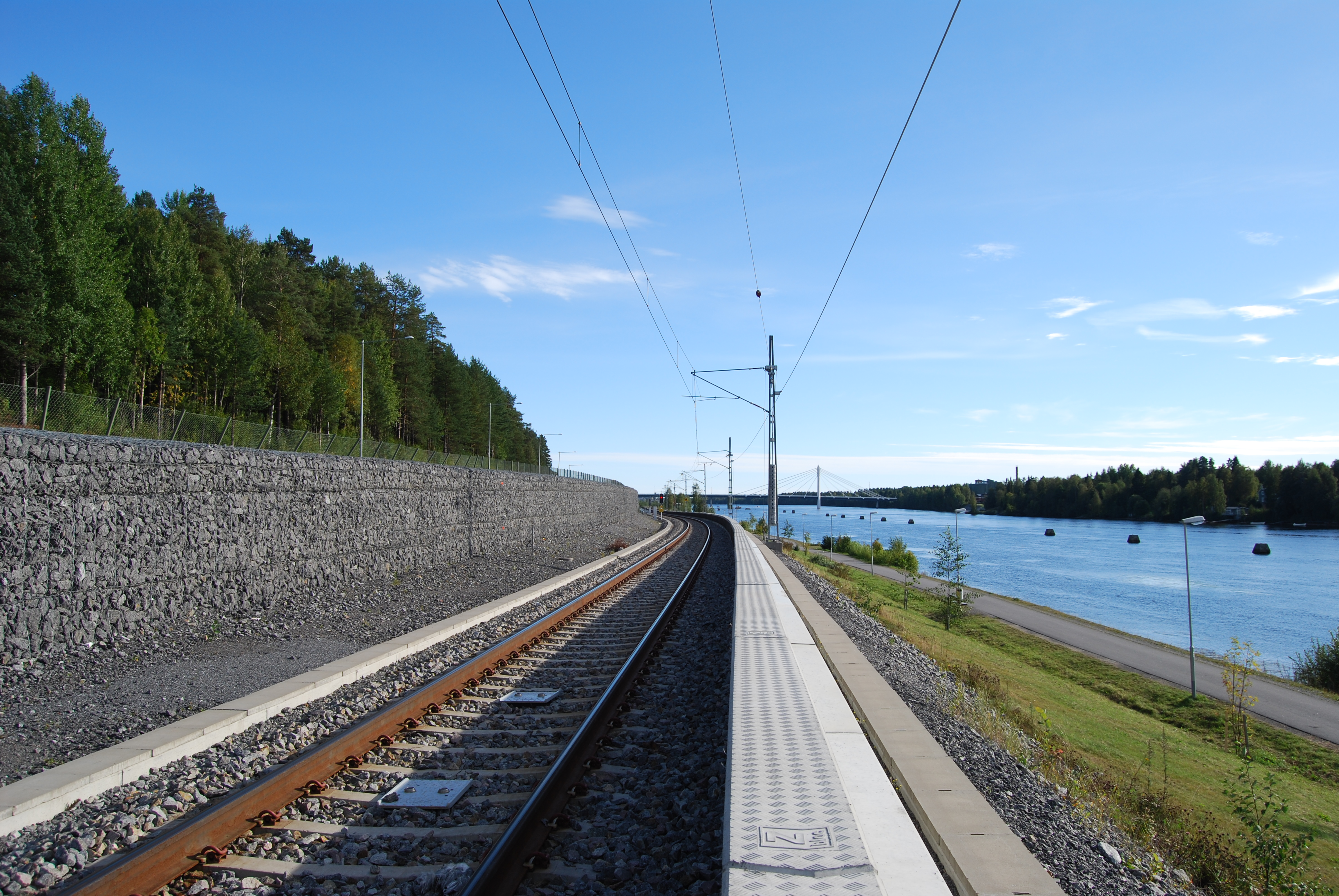 Botniabanan along the Ume River